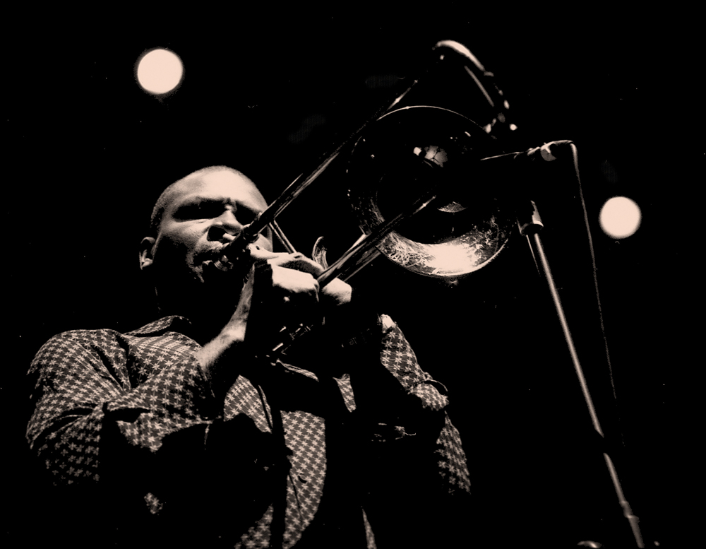 Robin Eubanks at the Torino Jazz Festival in 2007 (uploaded at a lower resolution upon author's request)